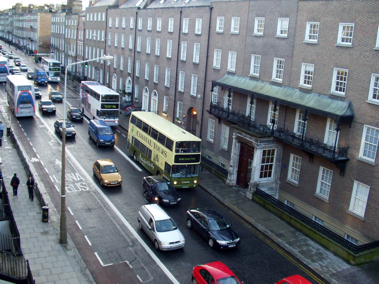 The N11 northbound on Leeson Street, Dublin 2, Ireland. Note the QBCs either side of road. The one on the left is a contra-flow. Bar the green bus the others in the shot are 46A buses.